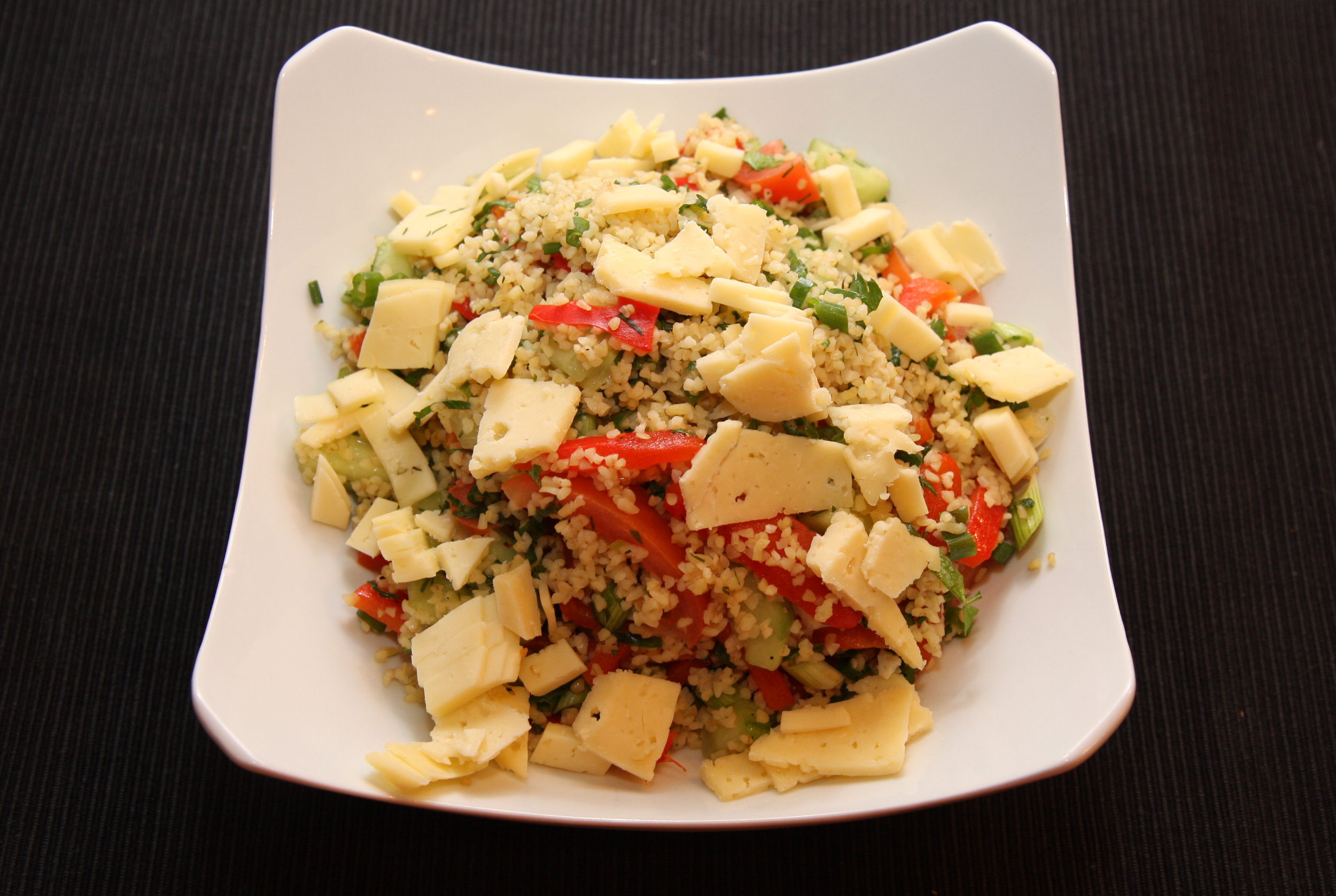 A nice fresh colourful Algerian salad using bulgur wheat, cucumber, spring onions, peppers and cheese.